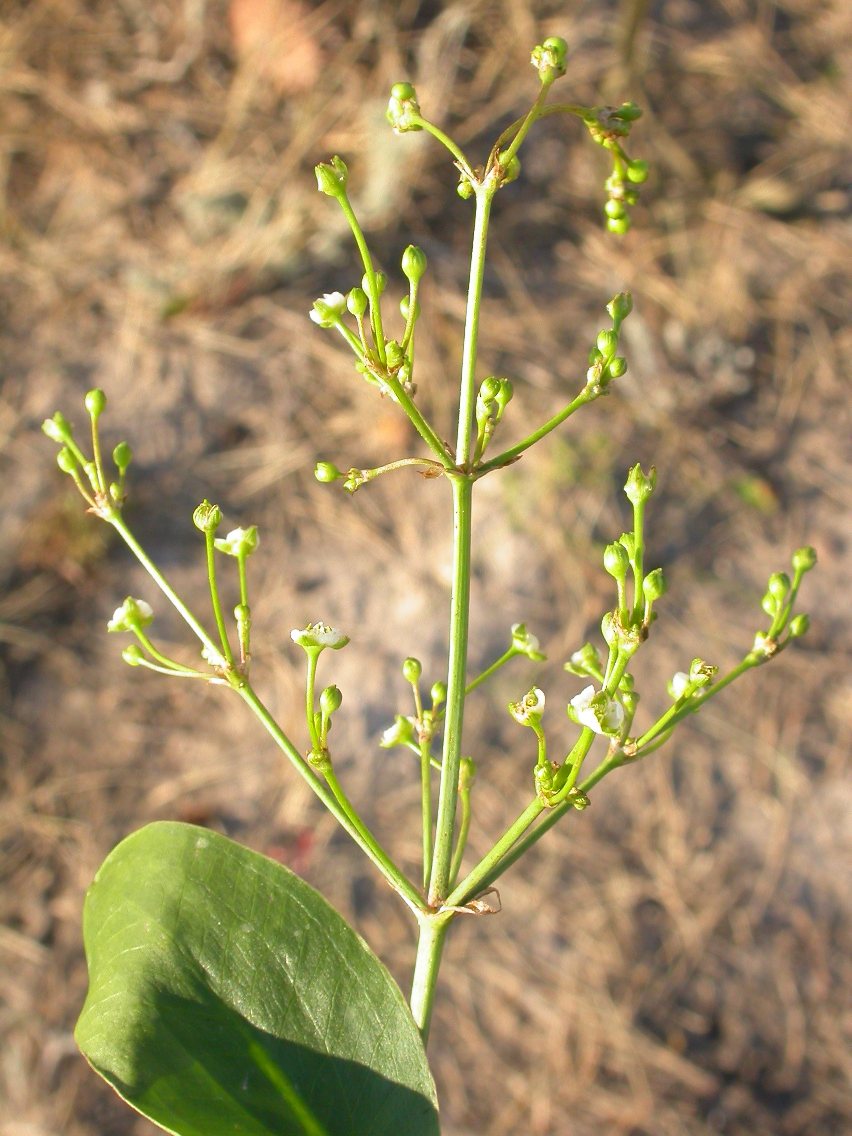 The wetland herb can sometimes get very close to sagebrush vegetation because of the interdigitation of riparian settings and sagebrush steppe.